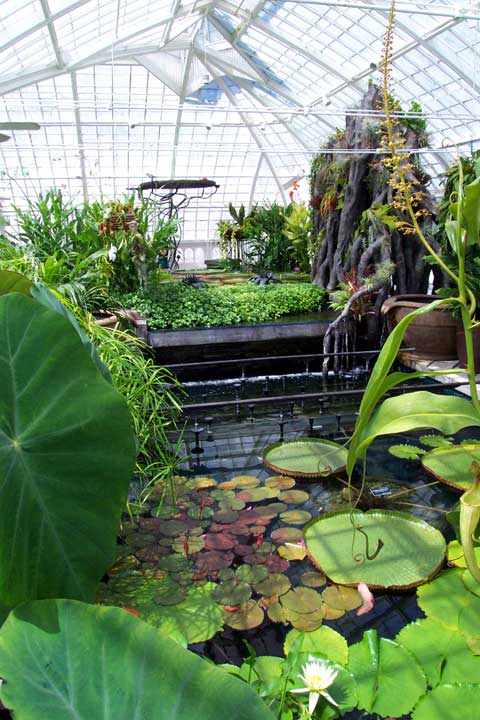 The lilypad room in the San Francisco Conservatory of Flowers.